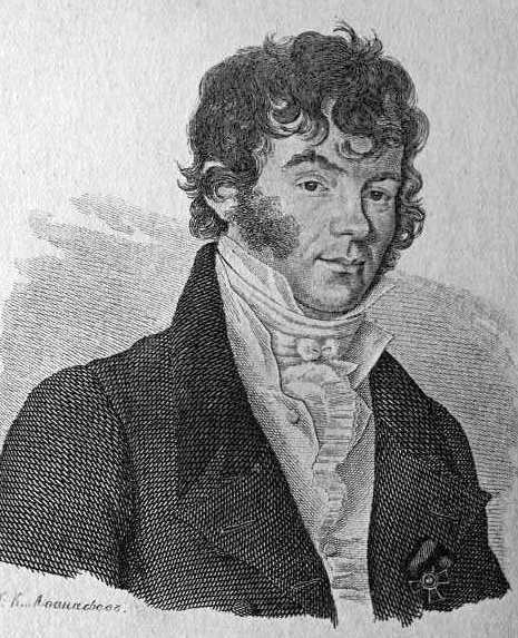 Alexander Vostokov